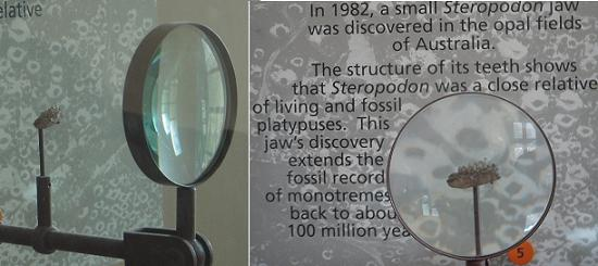 Steropodon jaw on public display at the American Museum of Natural History, New York city, I clicked this image with my digital camera.